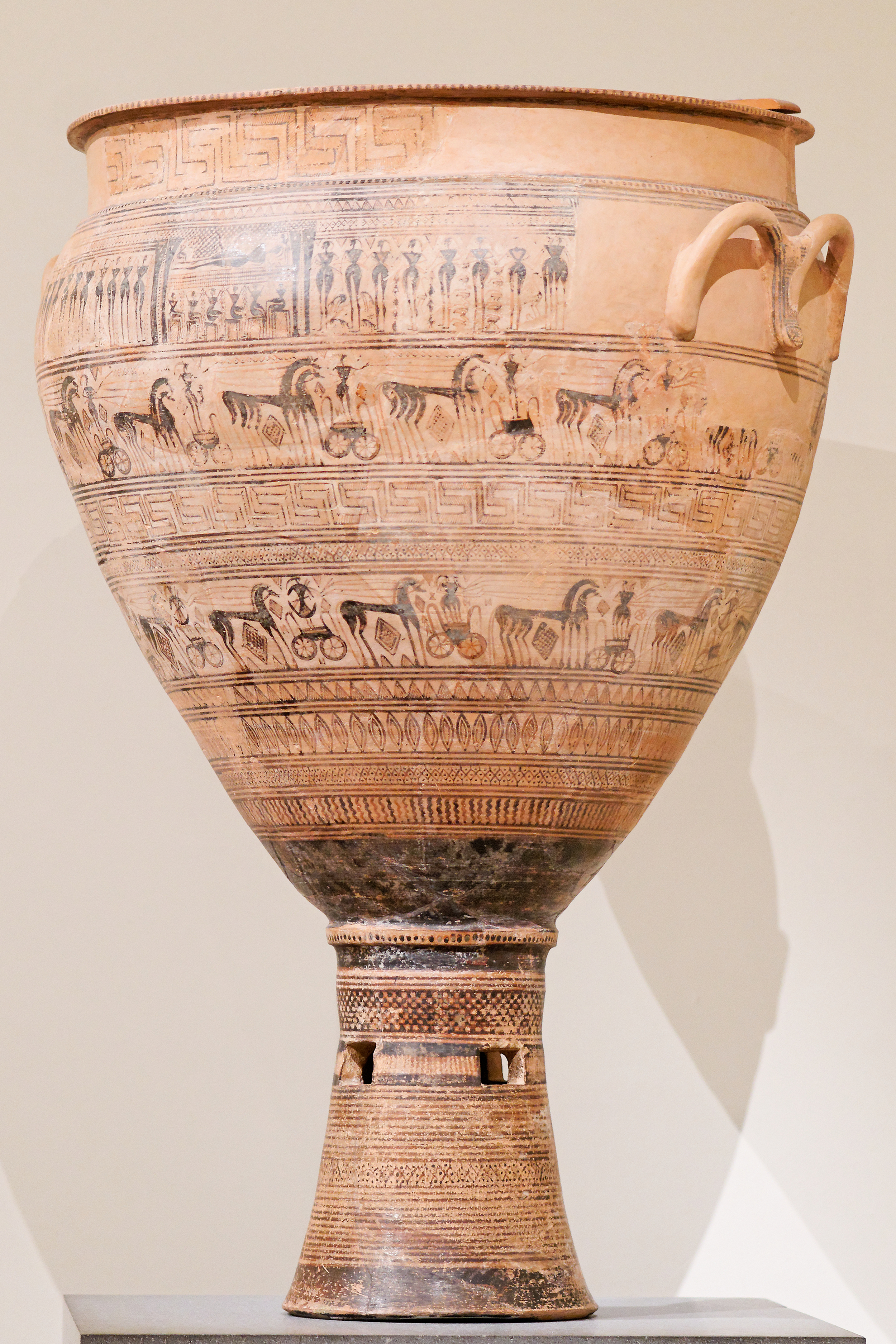 Attic Geometric krater with prothesis scene (laying out of the deceased) and a procession of chariots.